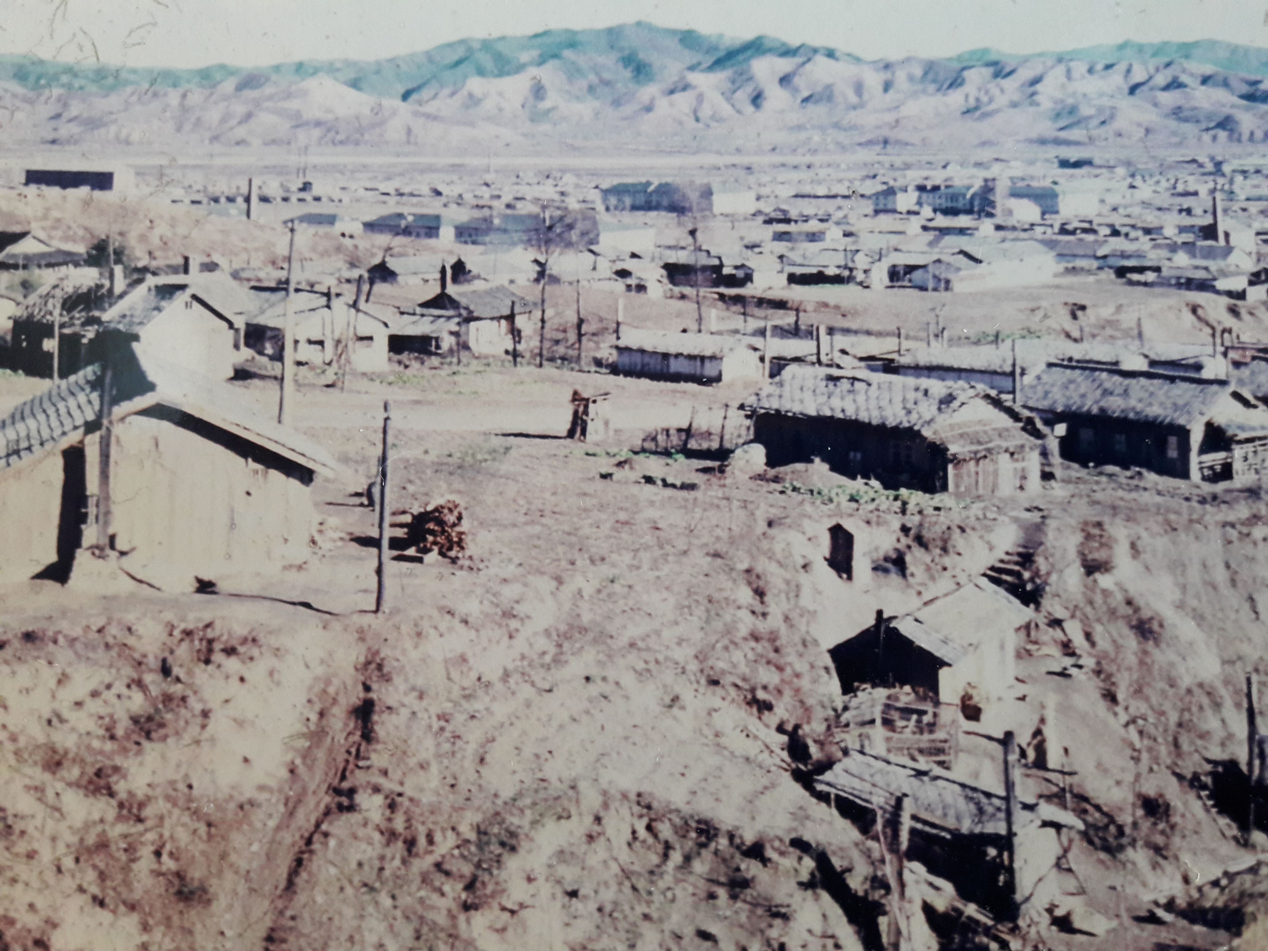 Photo made by architect Matthias Schubert, Rostock. Rostock was totally destroid by anglo-american bombers in WWII in reaction to Rostock´s Heinkel and Arado Bombers, which terrorized Europe since 1936. Architects Matthias Schubert and Hartmut Colden (Hartmut: jew, survived WWII times in UK) had the motive to contribute to modernism, prosperity and welfare in Hamhung.